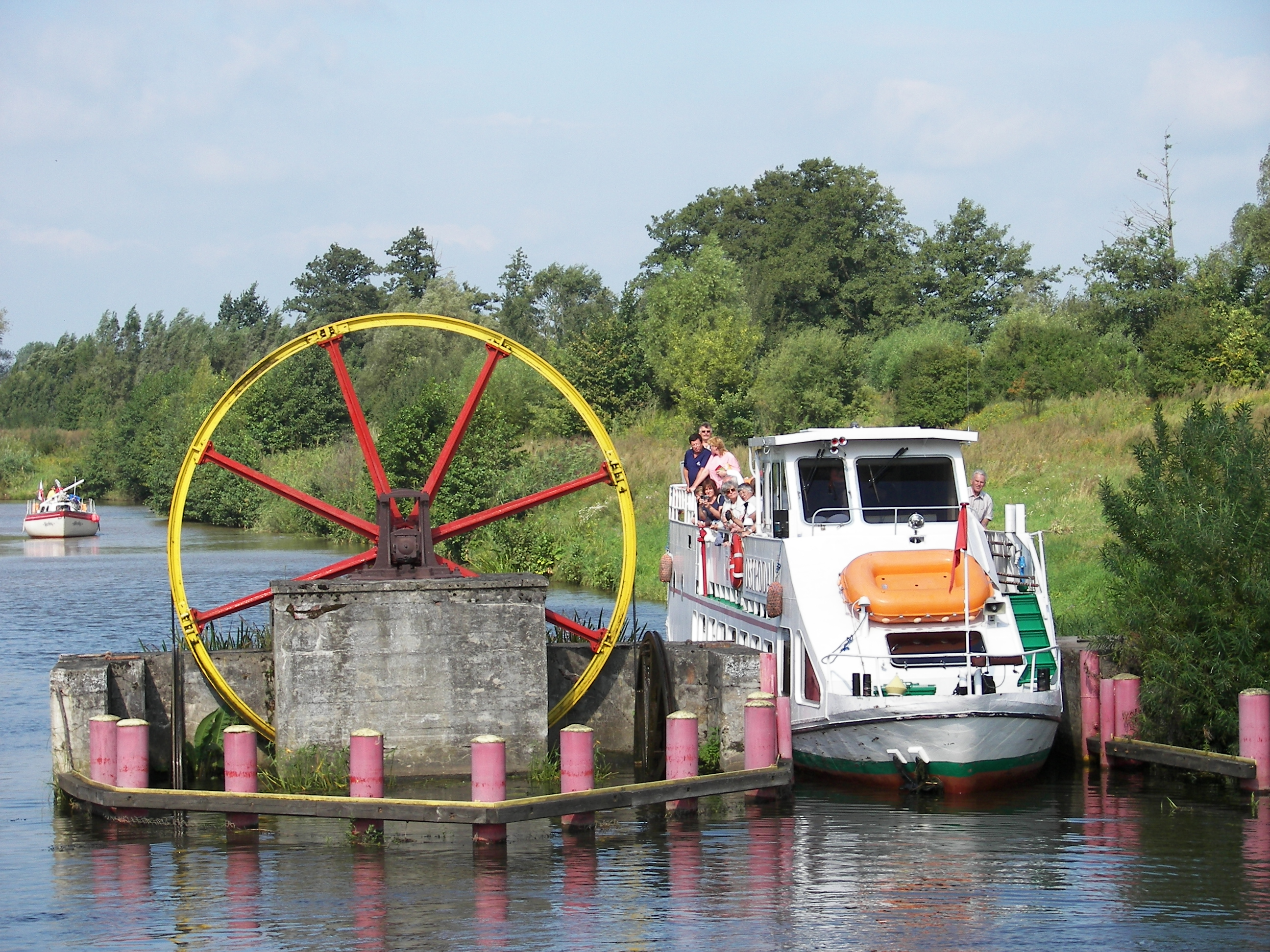 Elbląg Canal, Poland